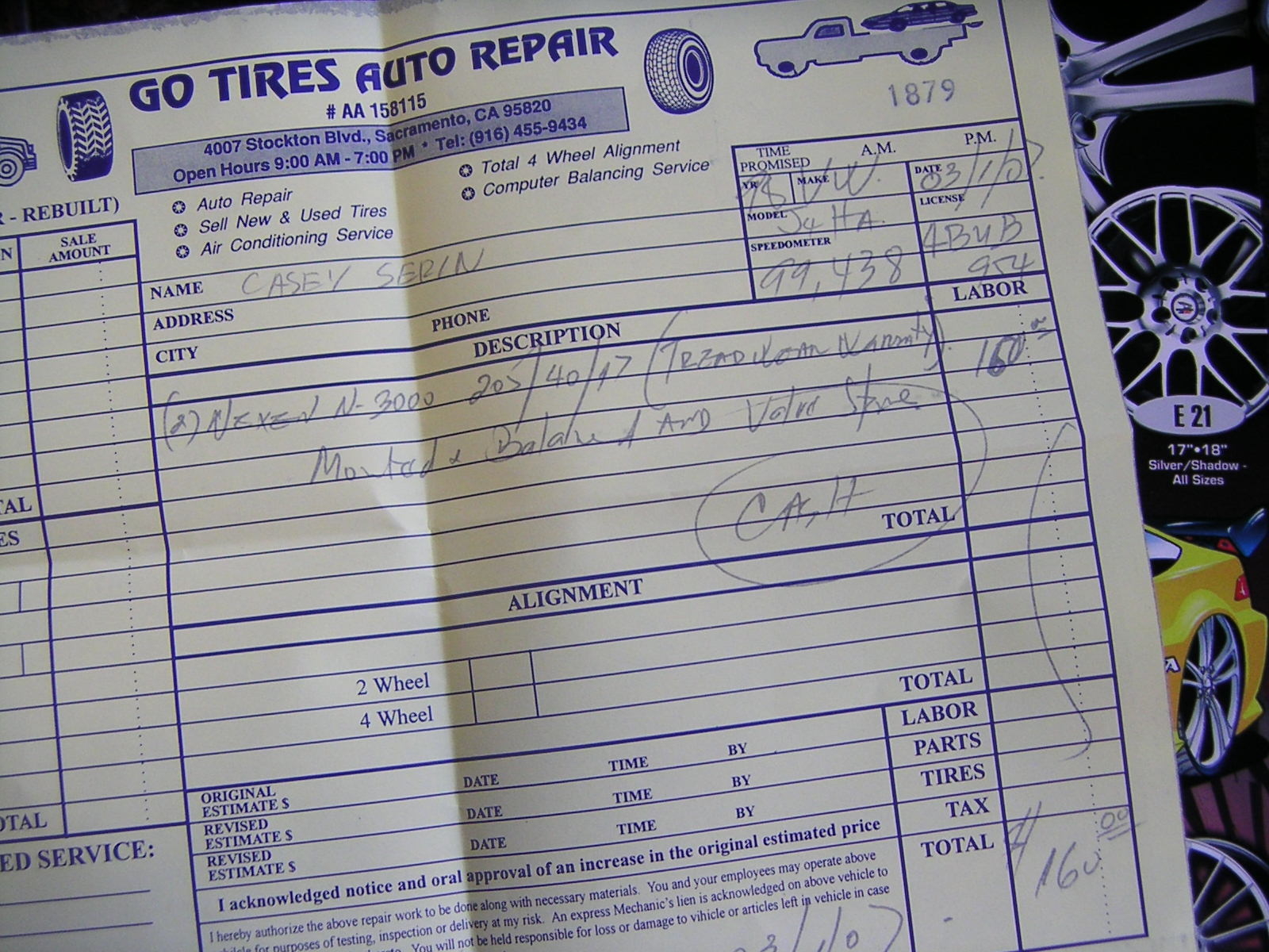 Thanks to my brother for the hookup. He is a regular customer and asked them to give me a discount.